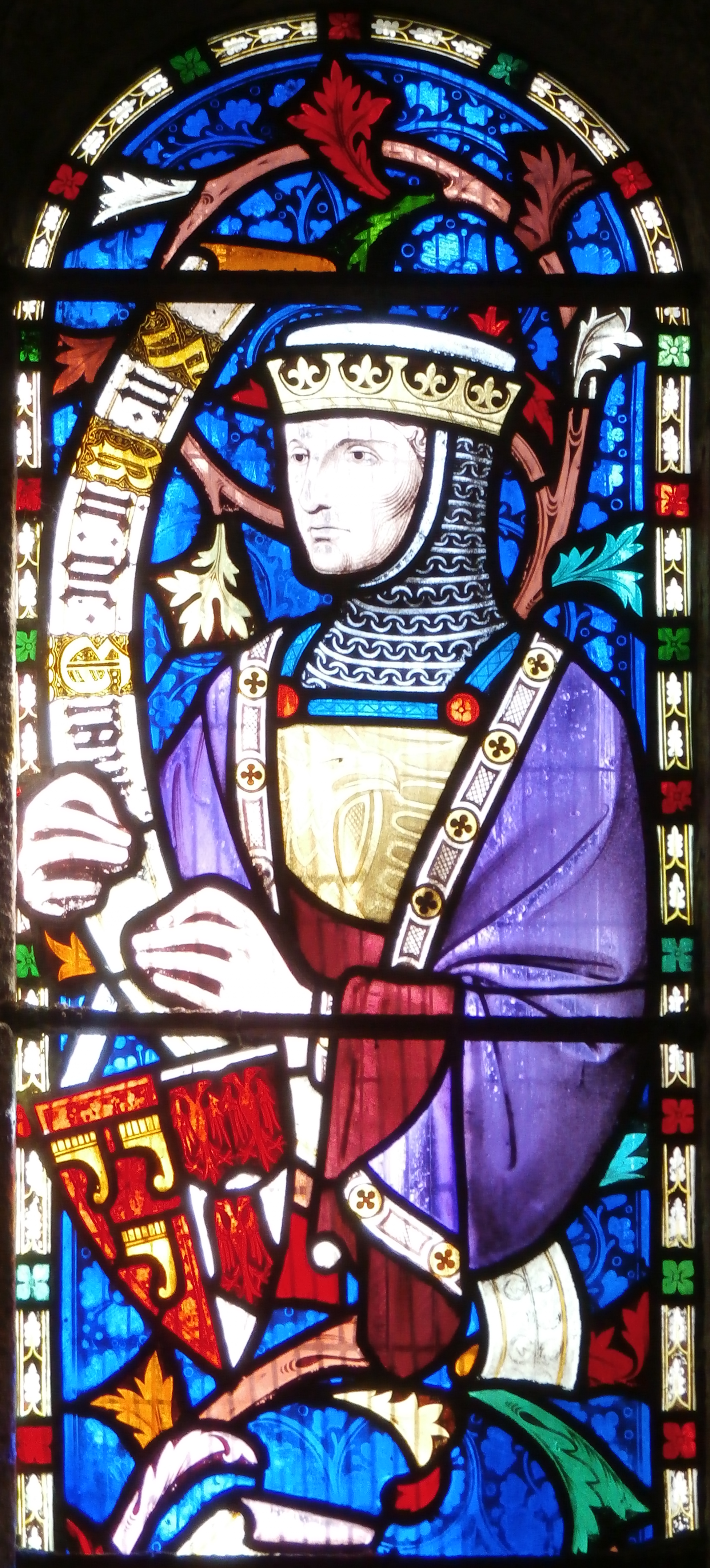 Richard V de Grenville (fl.1295), lord of the manors of Bideford in Devon and Kilkhampton in Cornwall, husband of Jane Trewent. On the escutcheon are displayed the arms of Grenville (Gules, three clarions or) impaling Three eagles displayed with two heads gules (Trewent of Blisland, Cornwall). Detail from 1st (east) Grenville Window (1860) in south wall of Grenville Chapel, Church of St James the Great, Kilkhampton, Cornwall. Window erected in 1860 jointly by descendants of of John Granville, 1st Earl of Bath (1628-1701), of Stowe, Kilkhampton: George Granville Sutherland-Leveson-Gower, 2nd Duke of Sutherland KG (1786-1861); John Alexander Thynne, 4th Marquess of Bath (1831–1896); George Granville Francis Egerton, 2nd Earl of Ellesmere (1823–1862); Rev. Lord John Thynne (1798-1881), DD, of Haynes Park, Bedfordshire, Canon of Westminster, 3rd son of Thomas Thynne, 2nd Marquess of Bath